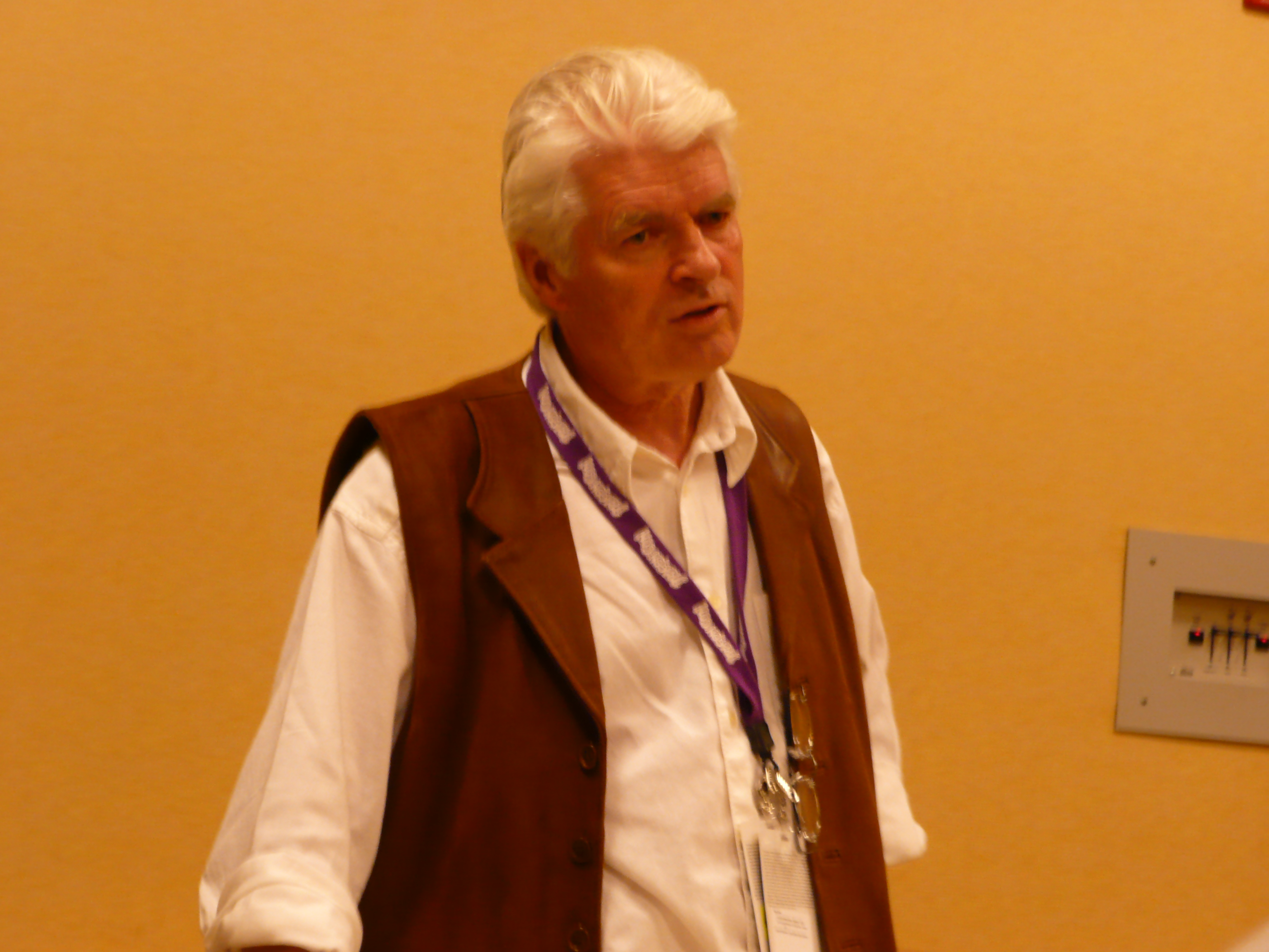 Roger Dean at DragonCon 2008.